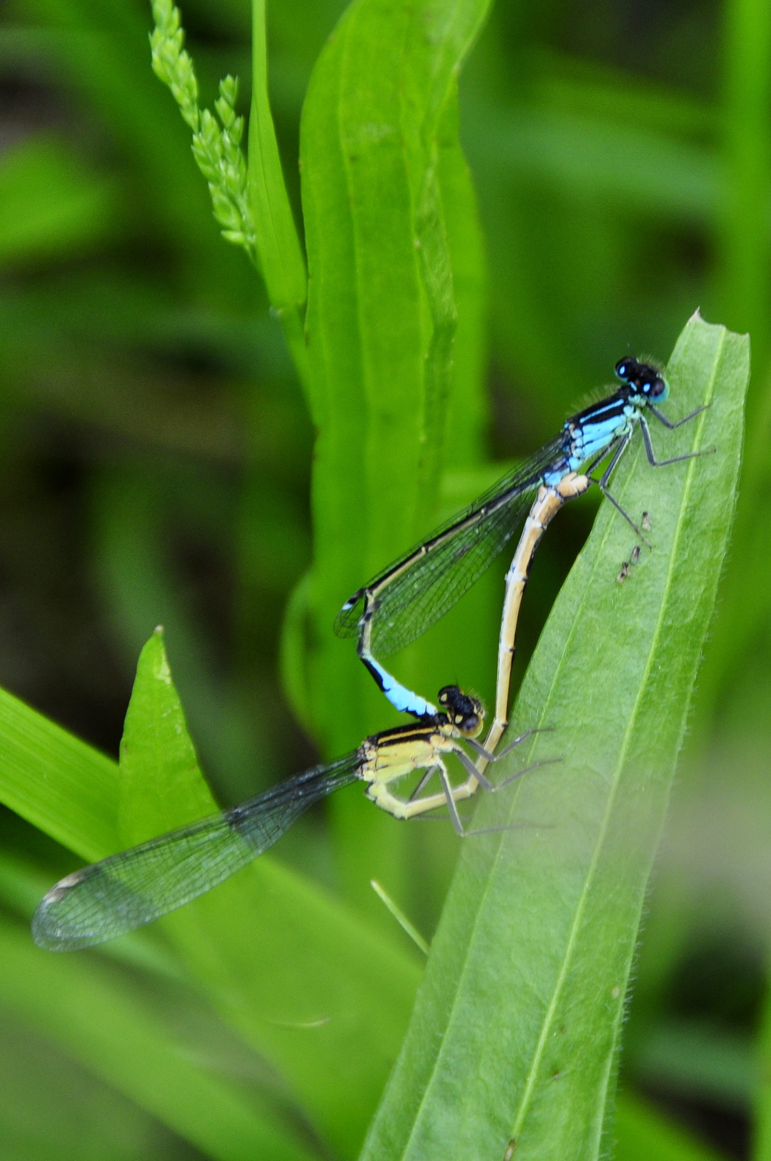 Dragonfly insect pairing (Damselflies in copulatory "wheel").